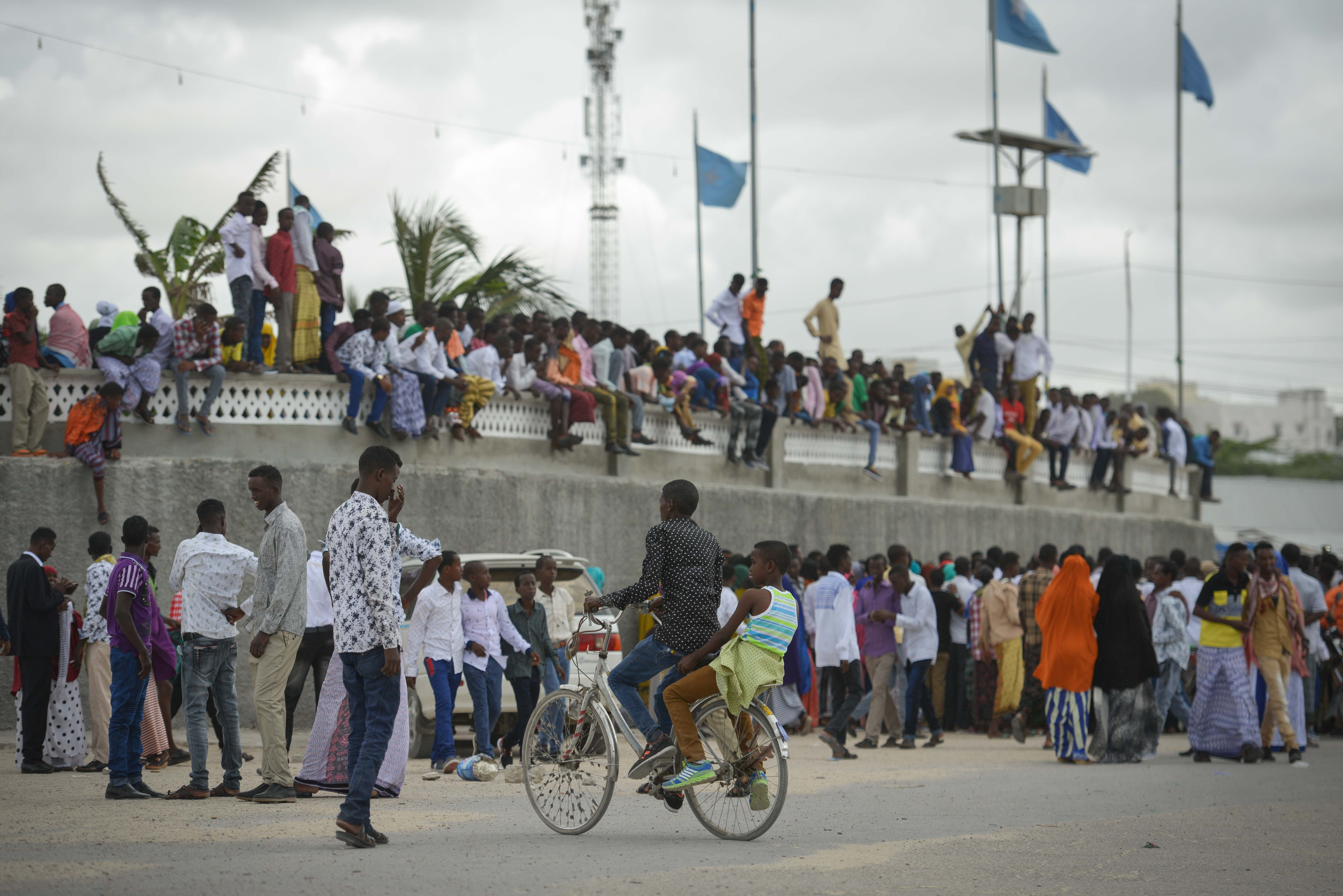 Somalis gather next to the Tomb of the Unknown Soldier to celebrate Eid el-Fitr in the capital Mogadishu on July 6, 2016. AMISOM Photo / Tobin Jones